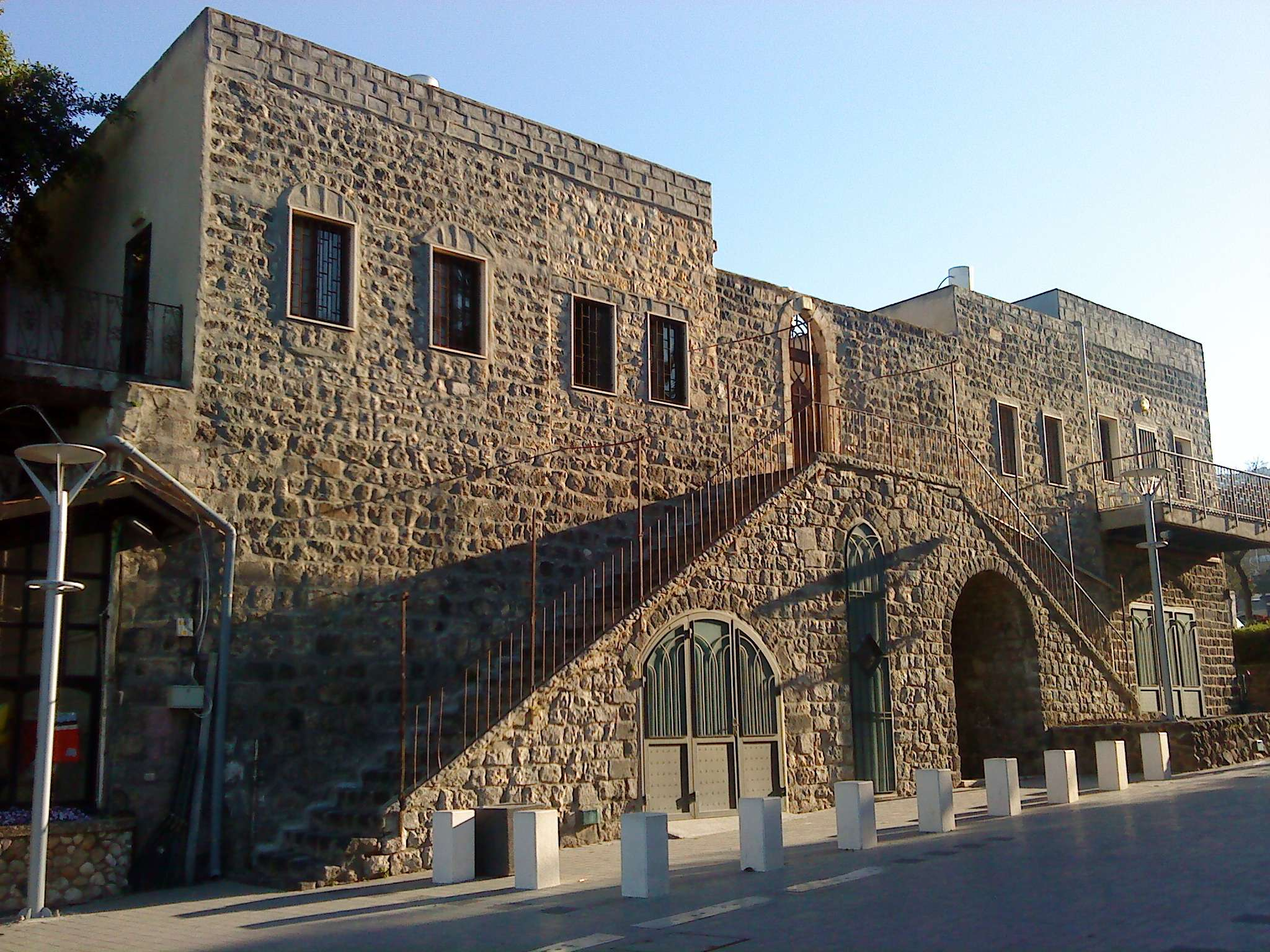 Tiberias, Israel.